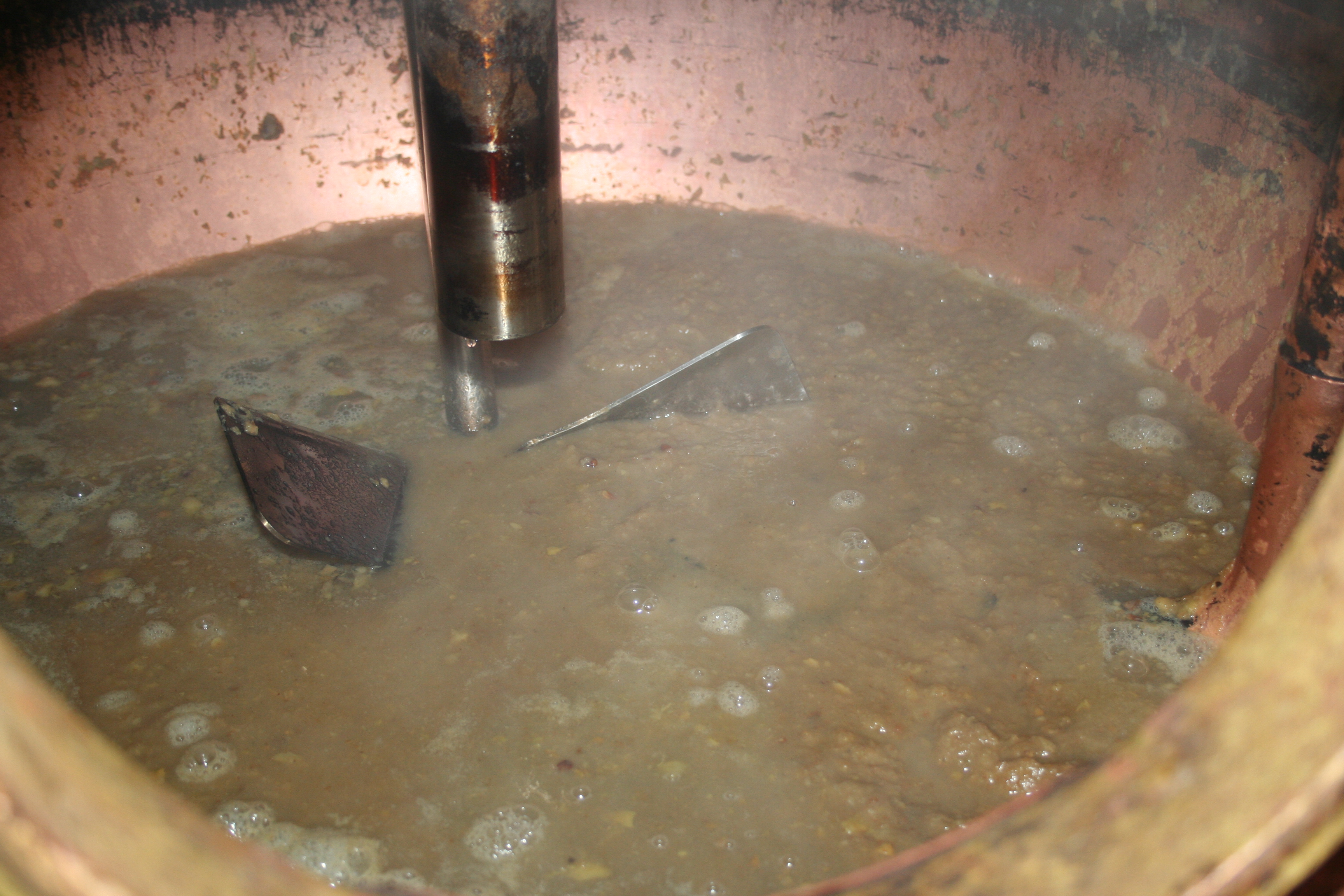 still with mash Author: supermartl